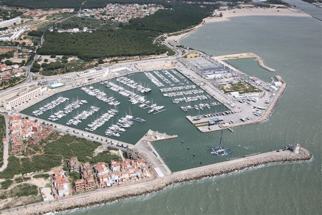 Aerial Sight of Puerto Sherry